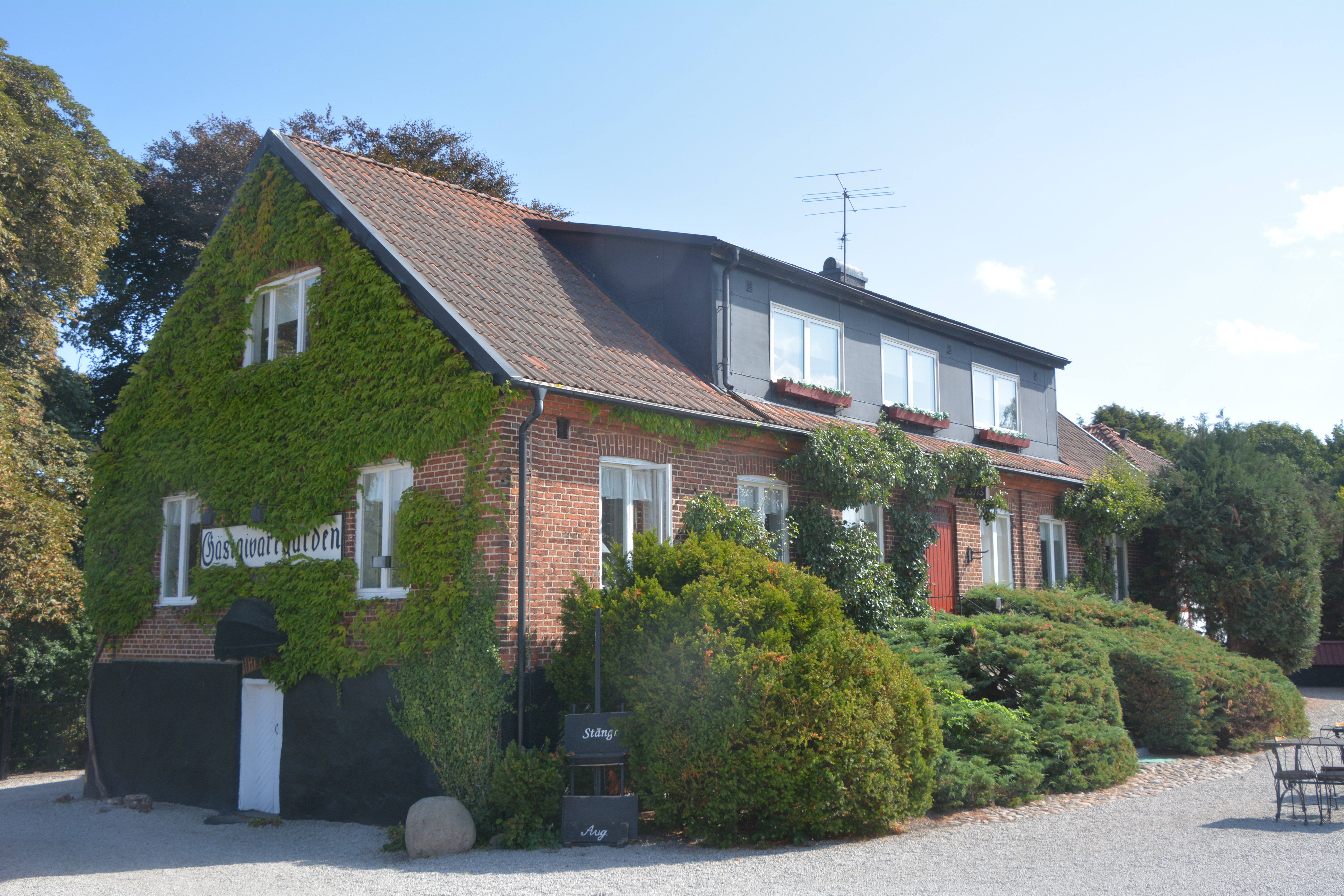 Hurva Gästis